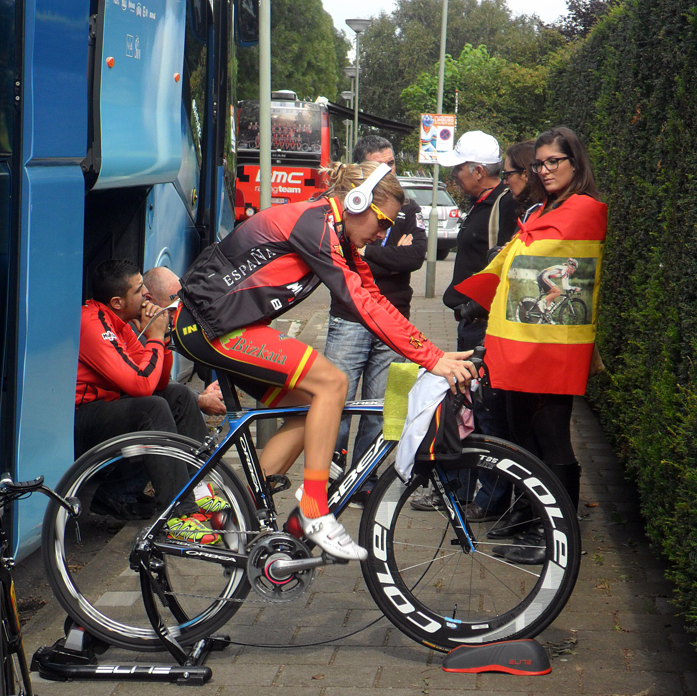 2012 UCI Road World Championships Valkenburg - Women's elite time trial